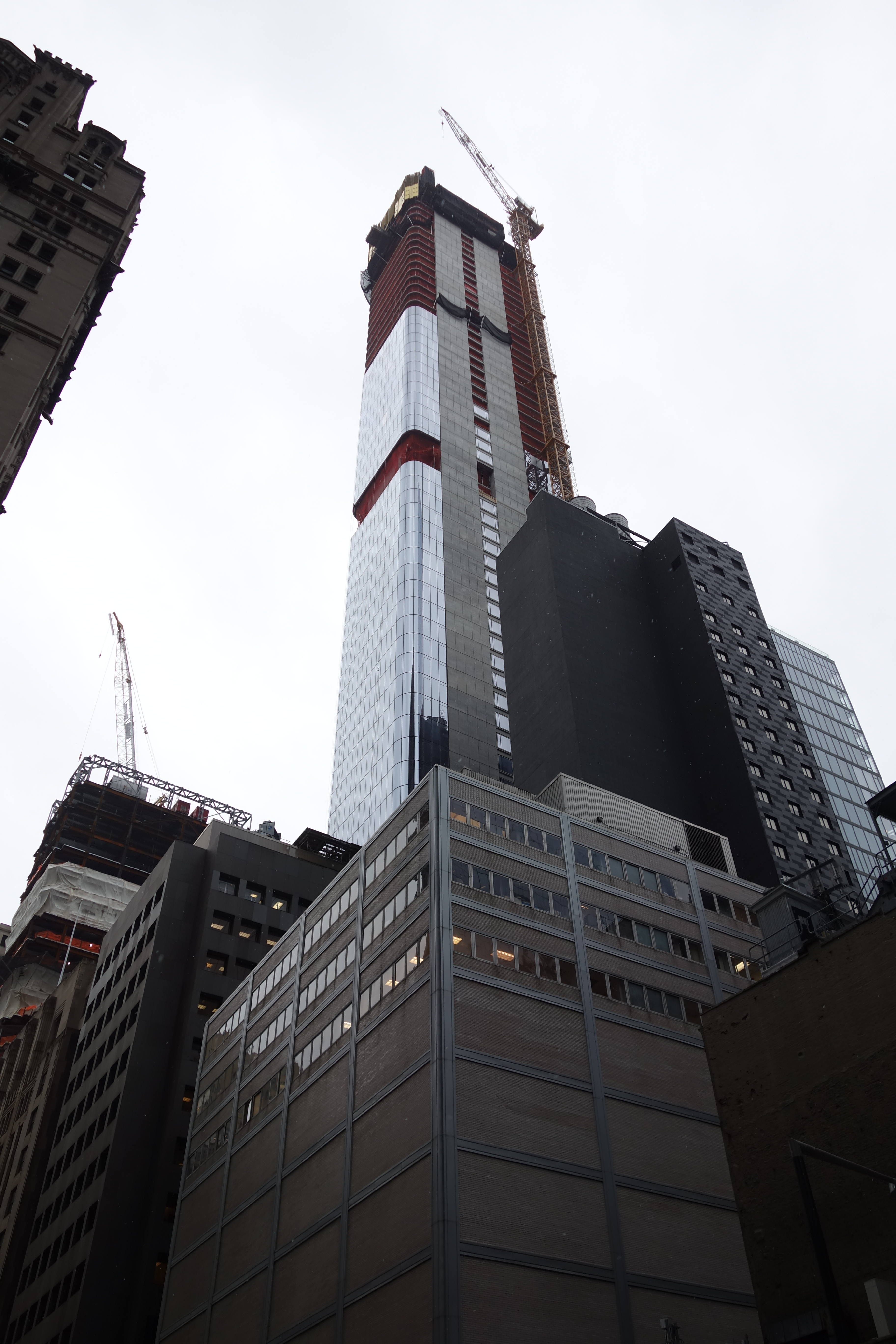 Looking up and south at 125 Greenwich Street (22 Thames Street) under construction, looking from Zuccotti Park at Trinity Place/Church Street and Liberty Street near the World Trade Center in the Financial District, Manhattan. In the foreground is the High School of Economics and Finance.